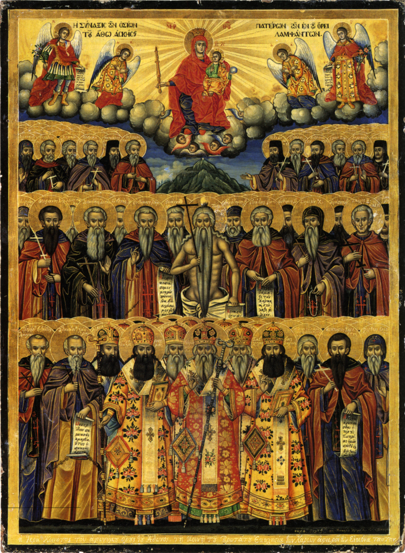 Saints of Mount Athos Icon in Protatos by Makarios from Galatista